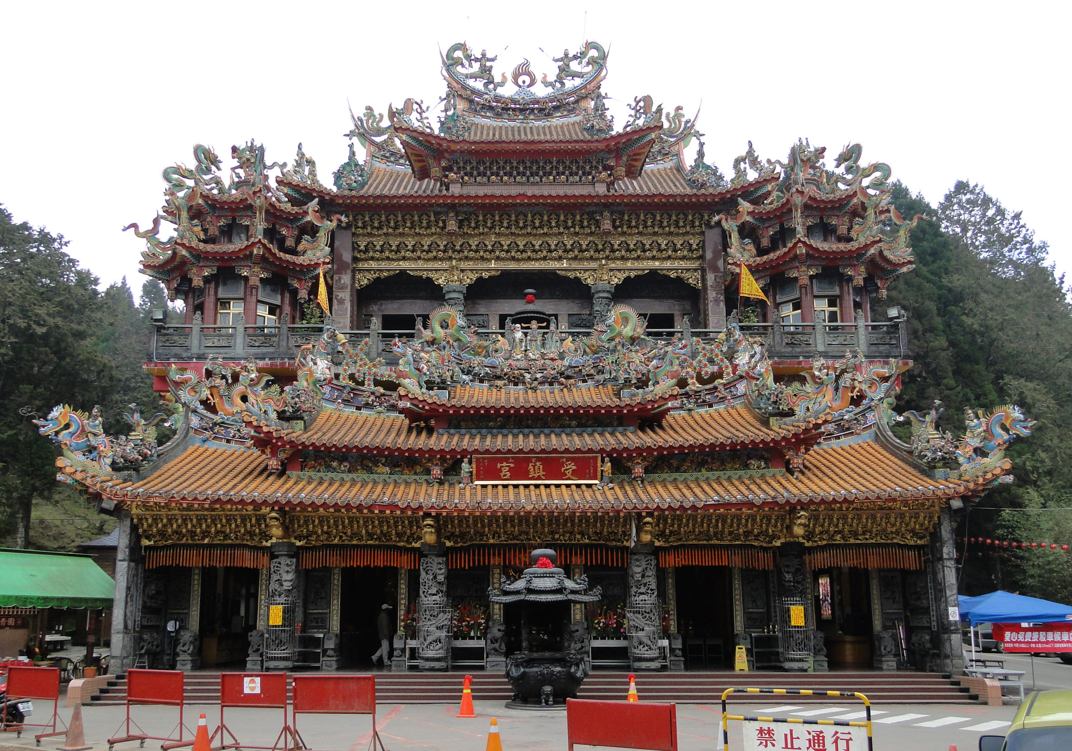 Shouzhen Temple in Alishan, Taiwan